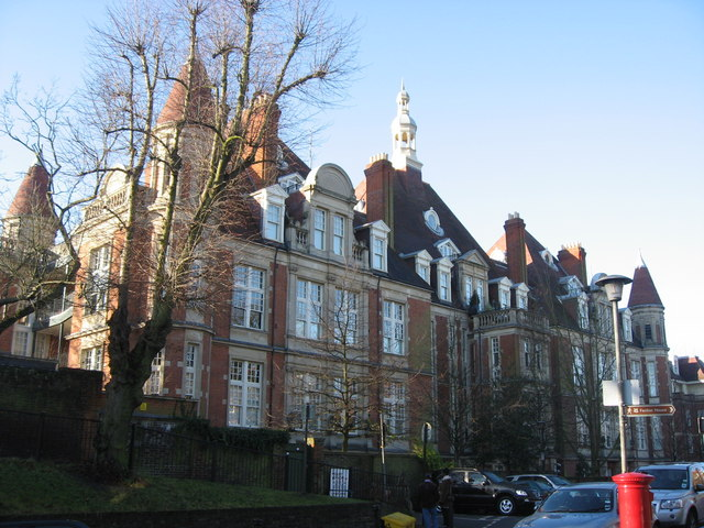 Mount Vernon The North London (later Mount Vernon) Hospital for Consumption and Diseases of the Chest was founded in 1860 in Fitzroy Square (St. Pancras), but moved to an old house at Mount Vernon, Hampstead, in 1864, keeping an out-patients' clinic at no. 41 Fitzroy Square. Apart from two private beds, the hospital took only patients who could not pay for treatment. From 1898 it received grants from the later King Edward's Fund. A building, designed by T. Roger Smith in 17th-century French Renaissance style, was built at Mount Vernon; the western block with 34 beds was started in 1880 and the central block was opened in 1893, making a total of 80 beds, but only 60 were in use in 1898 owing to lack of funds. A temporary extension was built in 1900 and the eastern block was completed in 1903, making a total of 140 beds. Mount Vernon House was leased as a nurses' home. In 1904 a new Mount Vernon hospital was opened at Northwood, where by 1913 it was decided to concentrate its work. The Hampstead building was taken over by the Medical Research Council - From: 'Hampstead: Public Services', A History of the County of Middlesex: Volume 9: Hampstead, Paddington (1989), pp. 138-145. URL: Date accessed: 24 January 2009 - [added by MQ] and was occupied by the National Institute for Biological Standards and Control until it moved out of London in the late 1980s and the building was converted into flats.